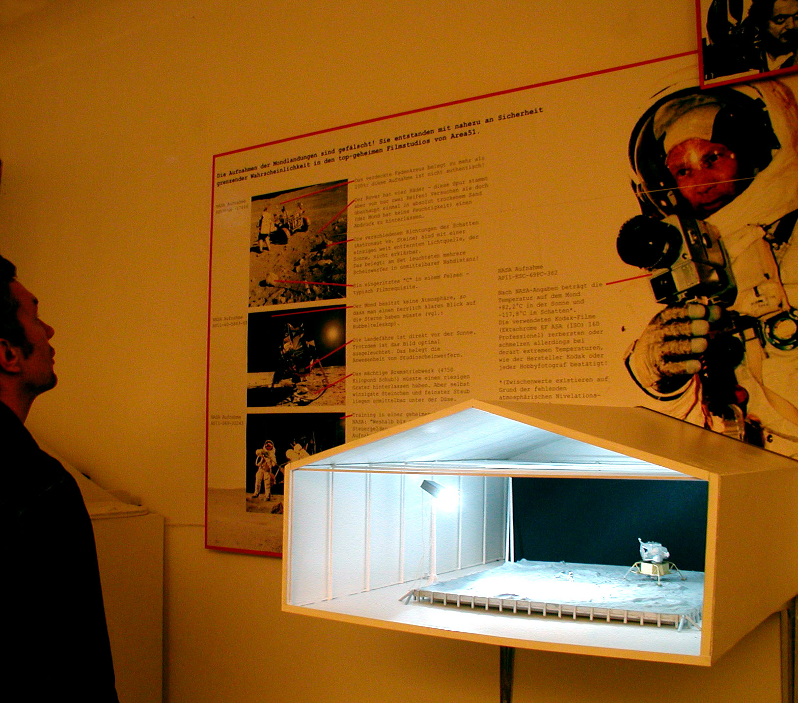 scientific presentation of the moon-hoax in an exhibition at Lothringer13/landen - an artspace in Munich, Germany